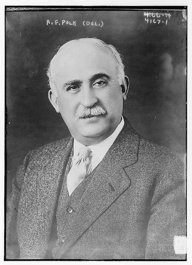 Albert Fawcett Polk in 1917